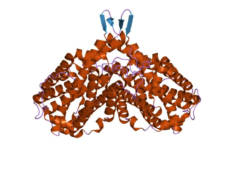 Cartoon representation of the molecular structure of protein registered with 1rib code.